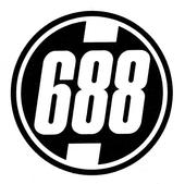 This is a logo for 688 Club.